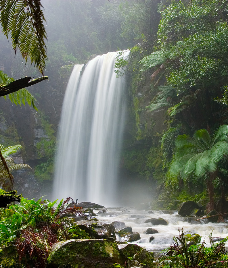 Hopetoun Falls, Beech Forest, near Otway National Park, Victoria, Australia. Taken with a Canon 10D and 17-40 f/4L lens.